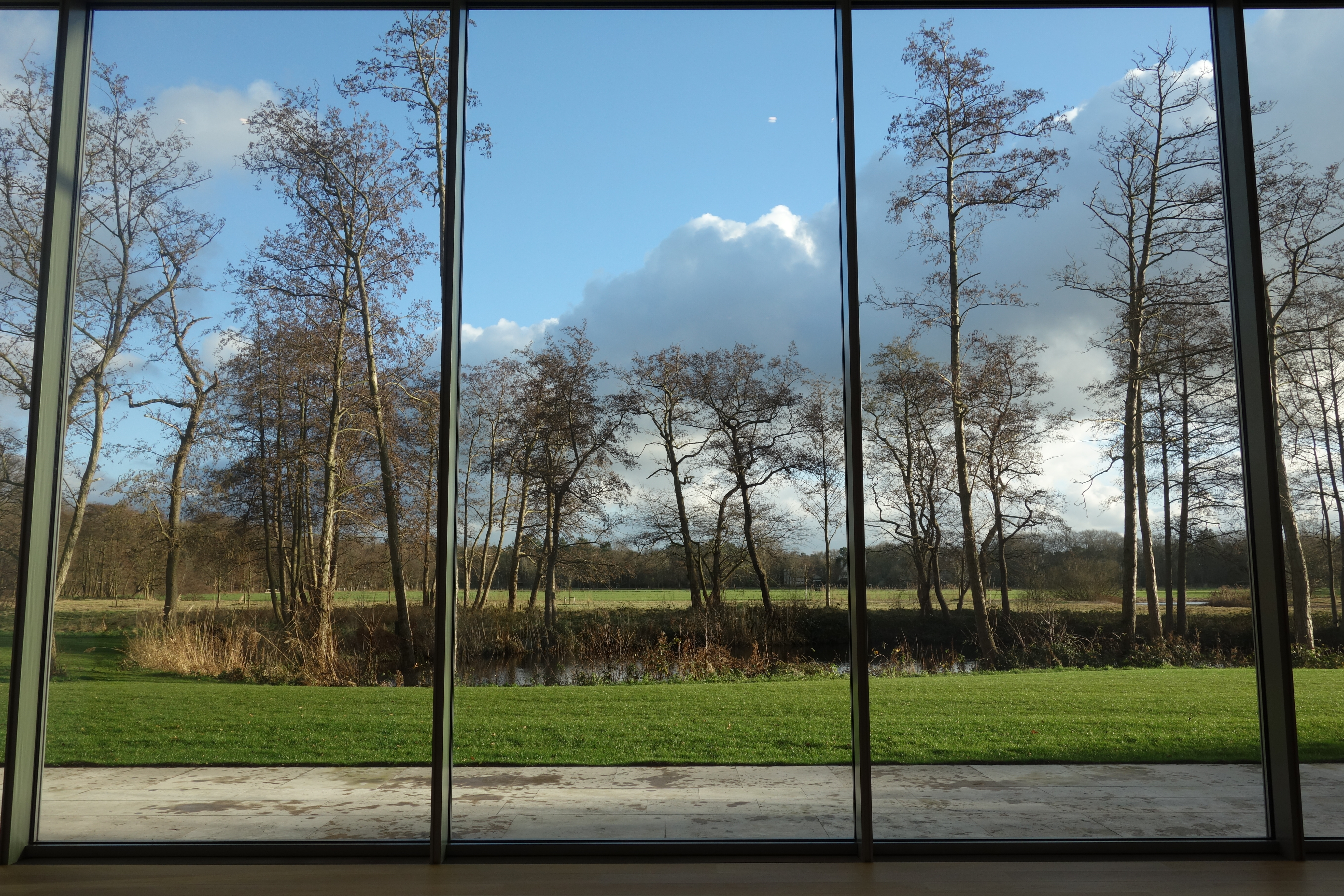 View from Dutch Museum Voorlinden (Wassenaar)